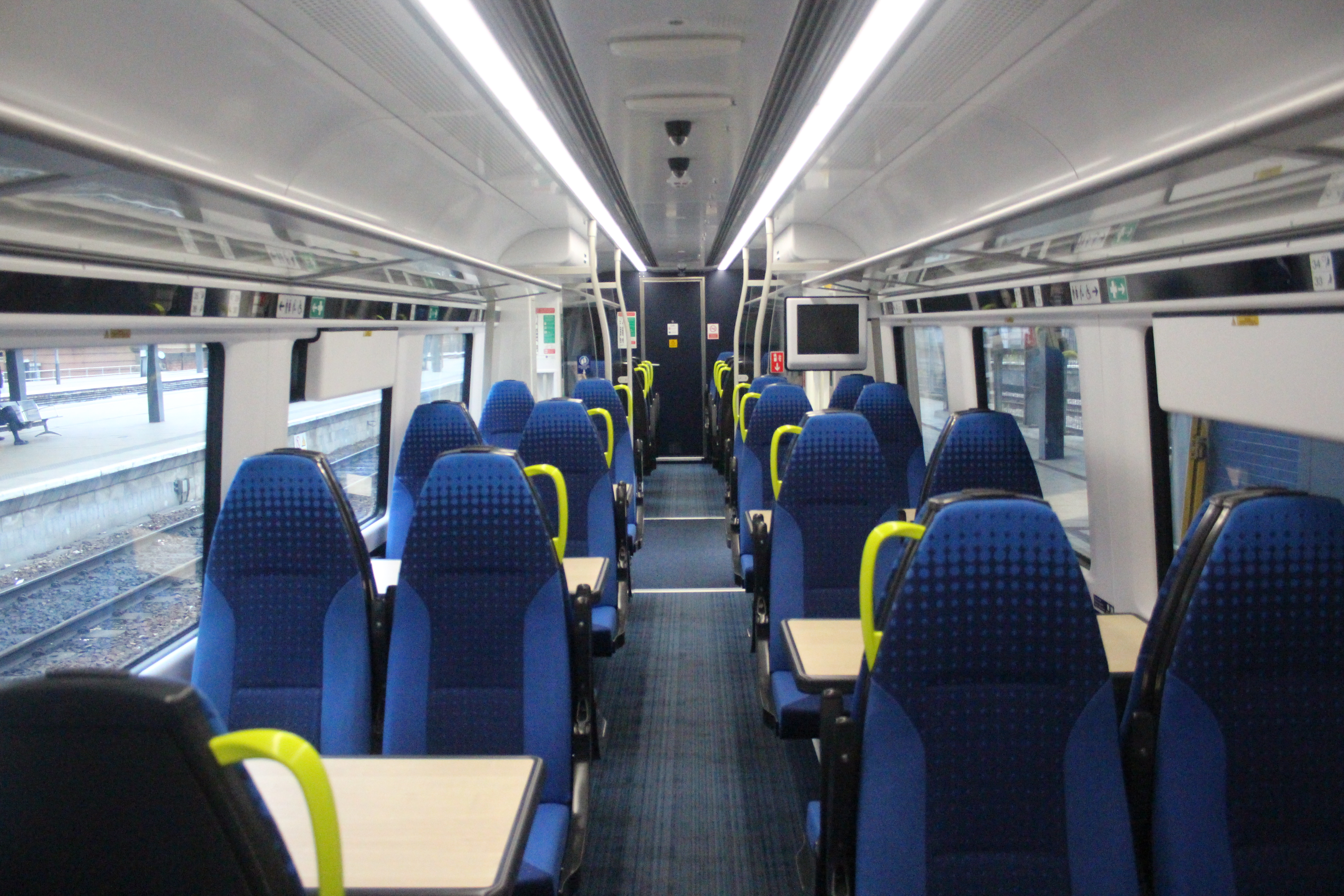 The interior of a Class 331 EMU from CAF for Northern, taken on day one of service.